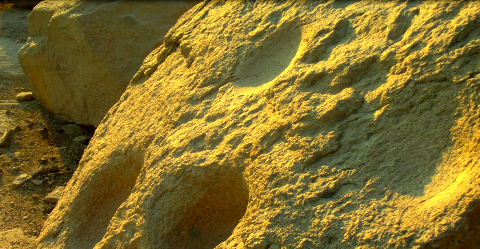 Piedras trabajadas prehispanica Moxeque Ancash Peru